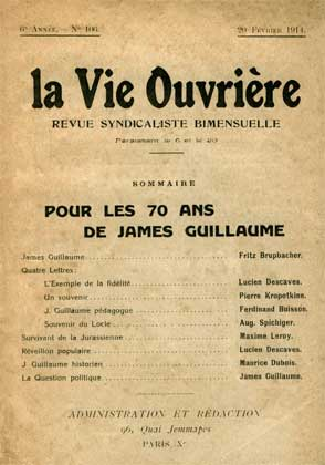 Cover of La Vie Ouvrière